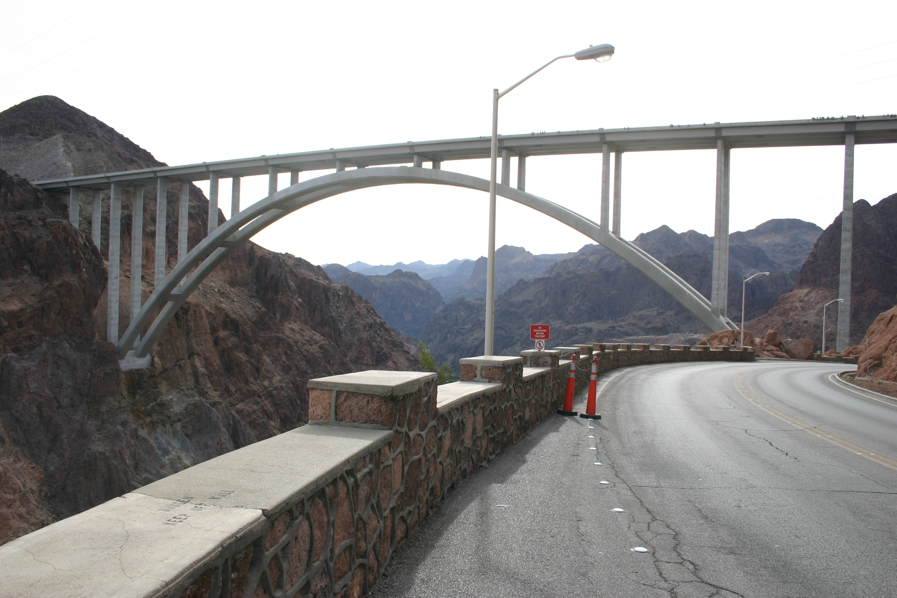 View of the newly completed Mike O'Callaghan – Pat Tillman Memorial Bridge from the Nevada dam access road.